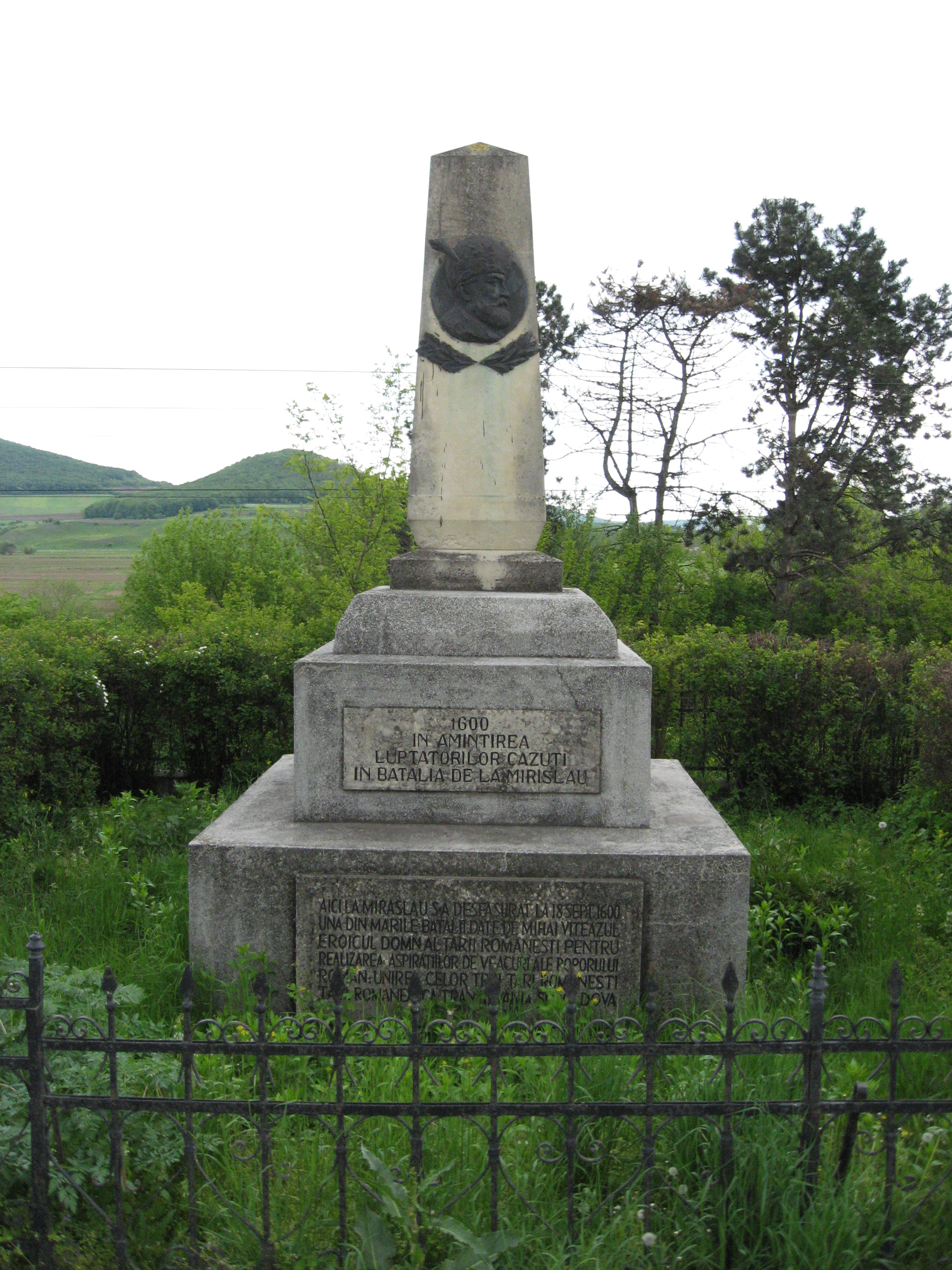 Monument in memory to fallen fighters in the Battle of Mirăslău from sept. 18, 1600, between the armies of voivode Mihai Viteazu (Michael the Brave) and Habsburg general Giorgio Basta (unveiled in 1956)